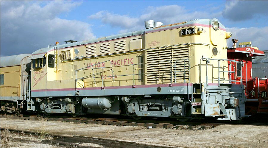 An FM H-20-44 road switcher, retired Union Pacific #1366. My image.